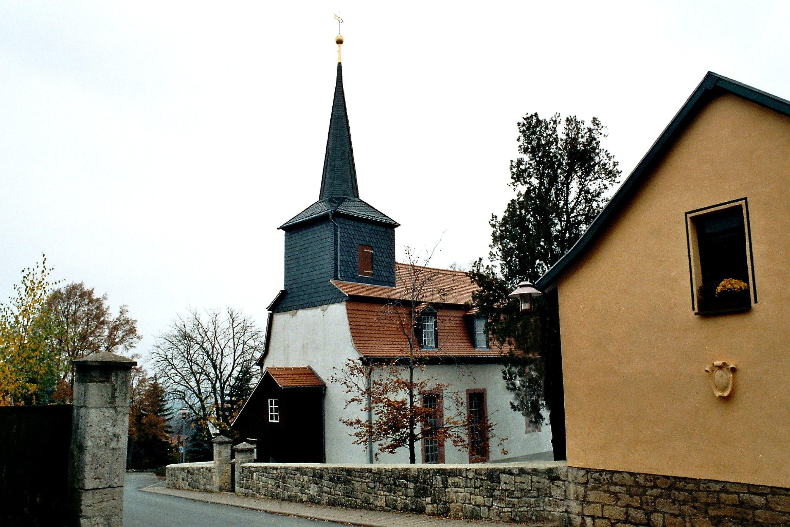 The village church in Kiliansroda